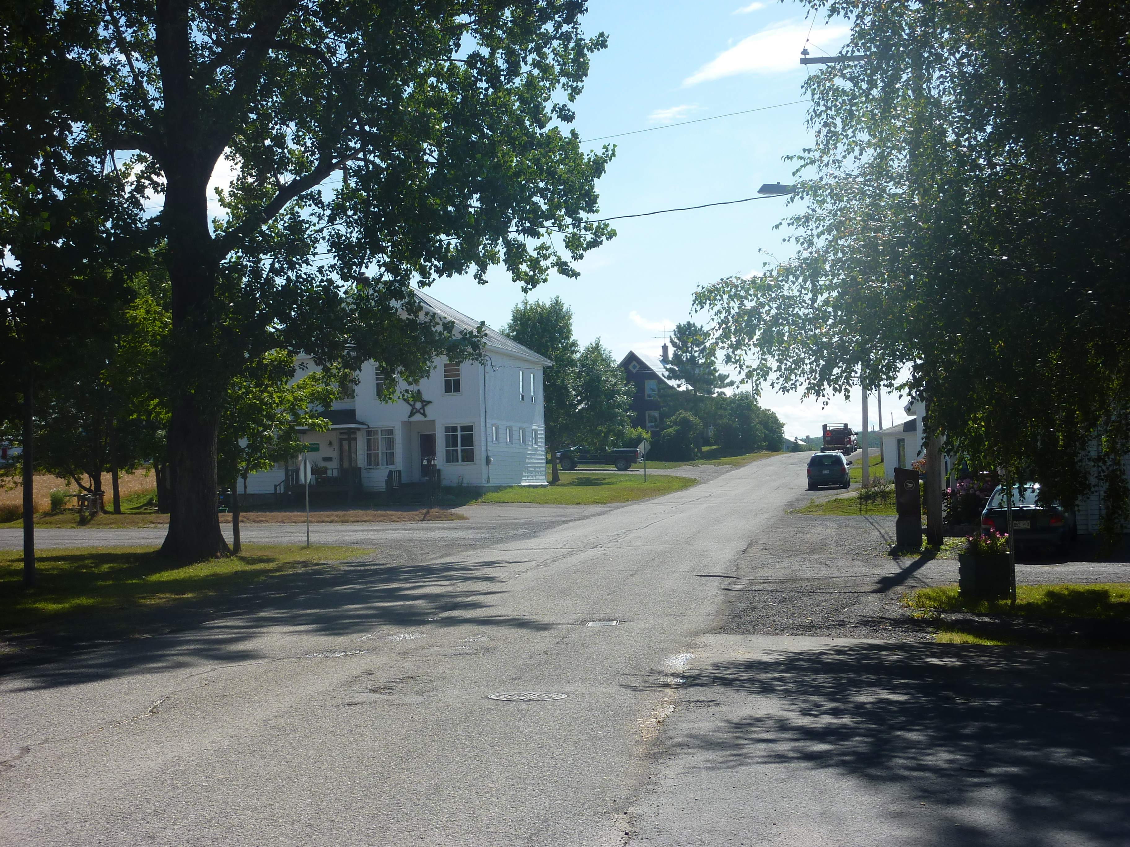 Saint-Damase, Qc (La Matapédia)